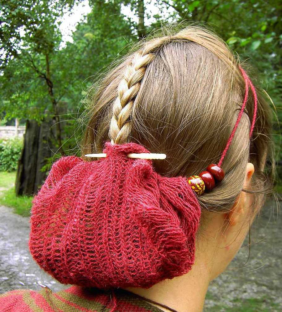 Reconstruction of a saxon hairnet in sprang technique from Issendorf, Germany, 6th century AD, reconstruction by Hellen Schmidt, Nottuln.